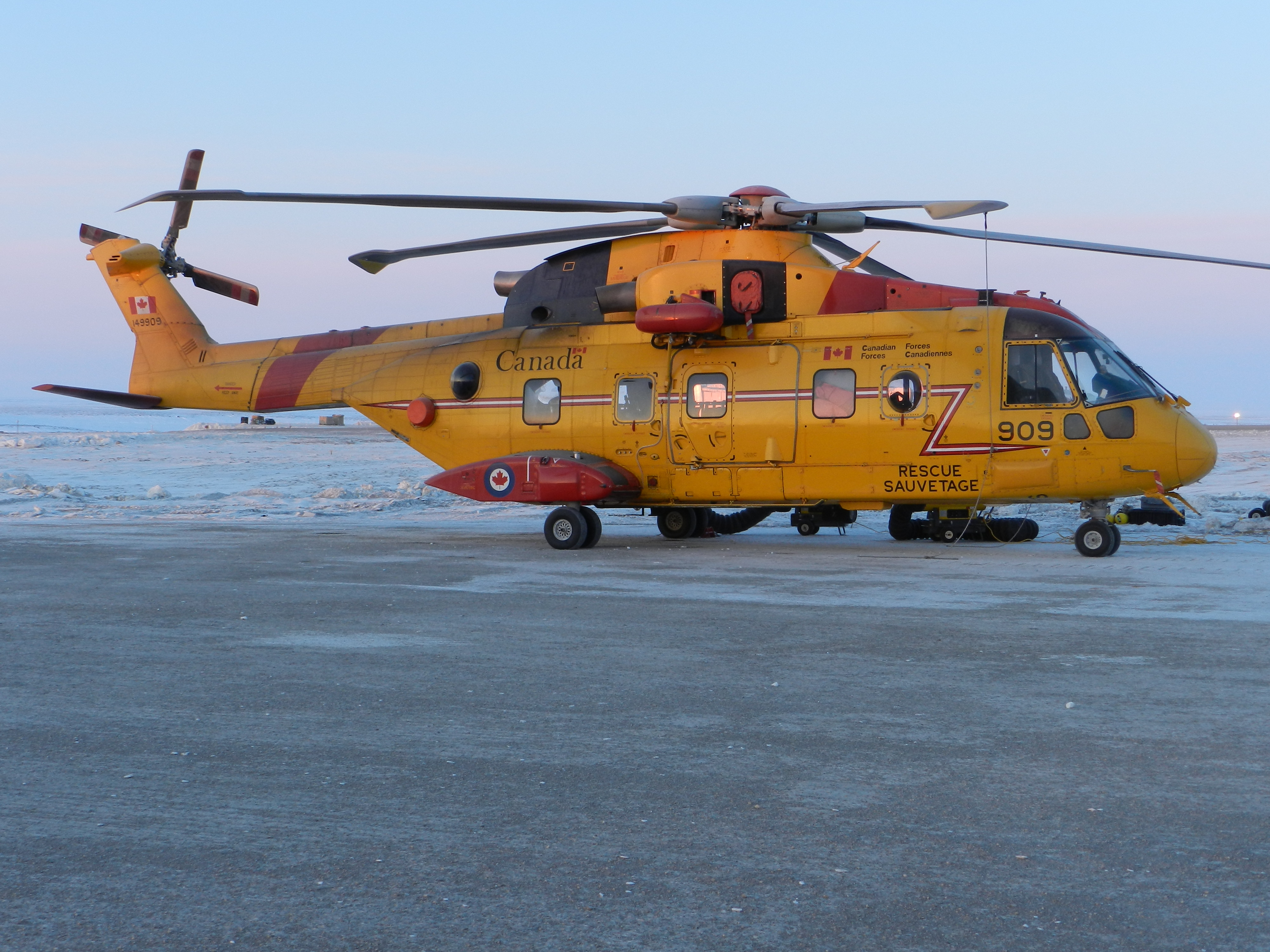 Royal Canadian Air Force AgustaWestland CH-149 Cormorant